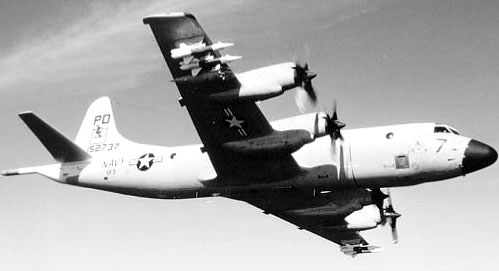 A VP-9 (PD 7) P-3 (BuNo 152737)carrying four Bullpup air-to-ground missiles. Date unknown. Photo from the Naval Historical Center. Repository: San Diego Air and Space Museum Archive